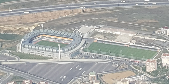 Başakşehir 20170825